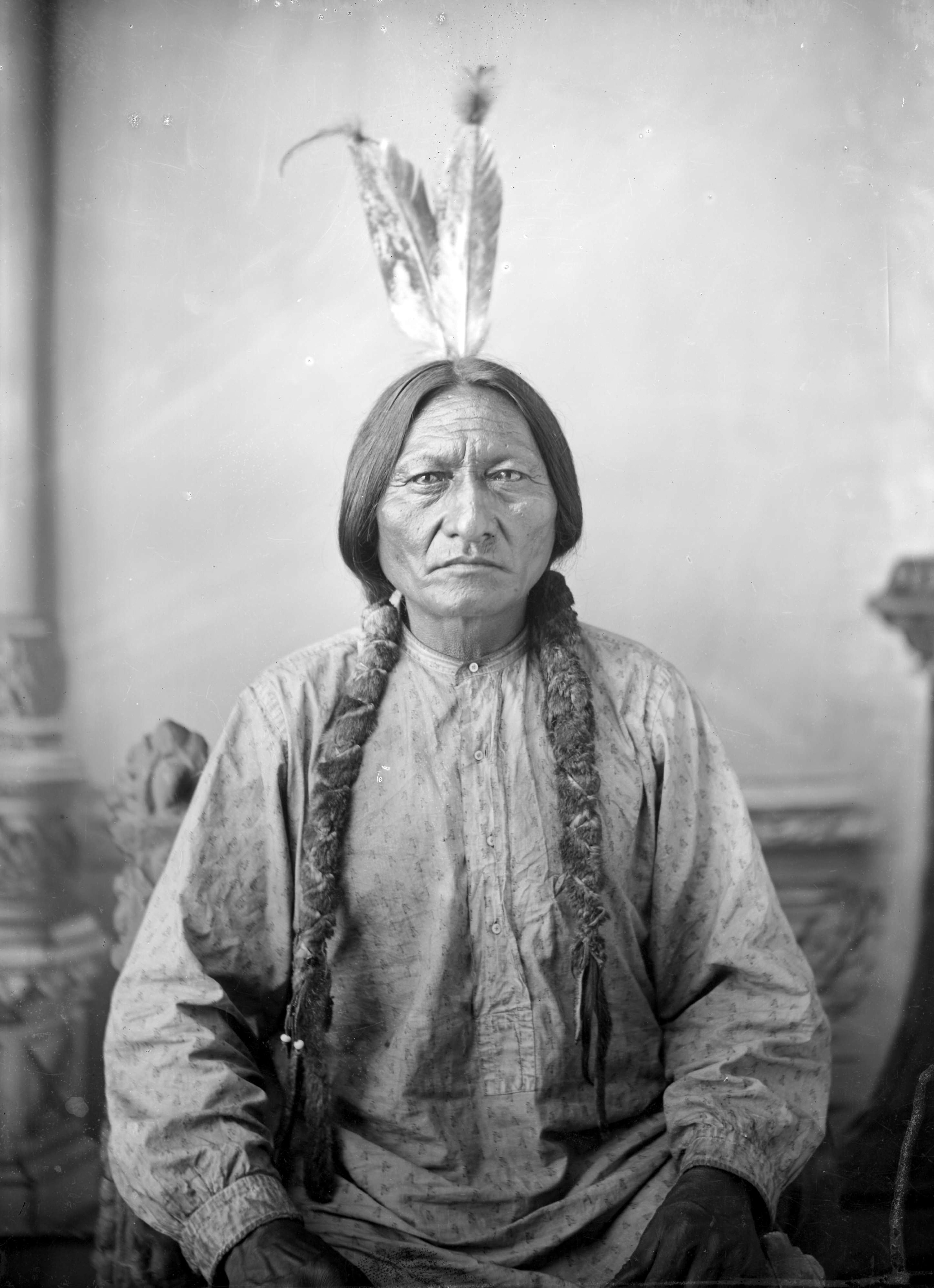 Sitting Bull by D F Barry ca 1883 original cabinet card